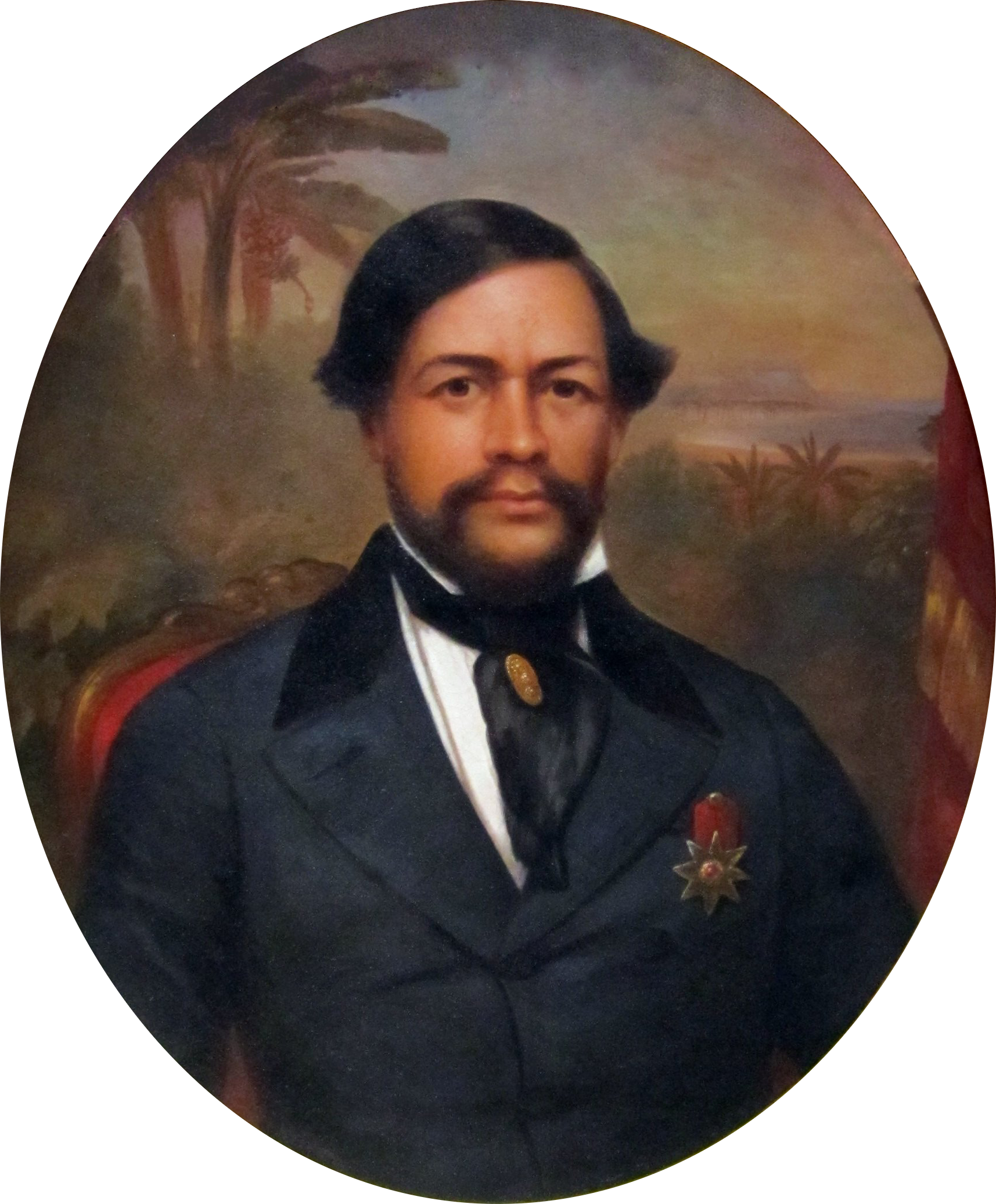 Portrait of King Kamehameha III, painted in Boston from a daguerreotype, by an unknown artist, Bishop Museum.